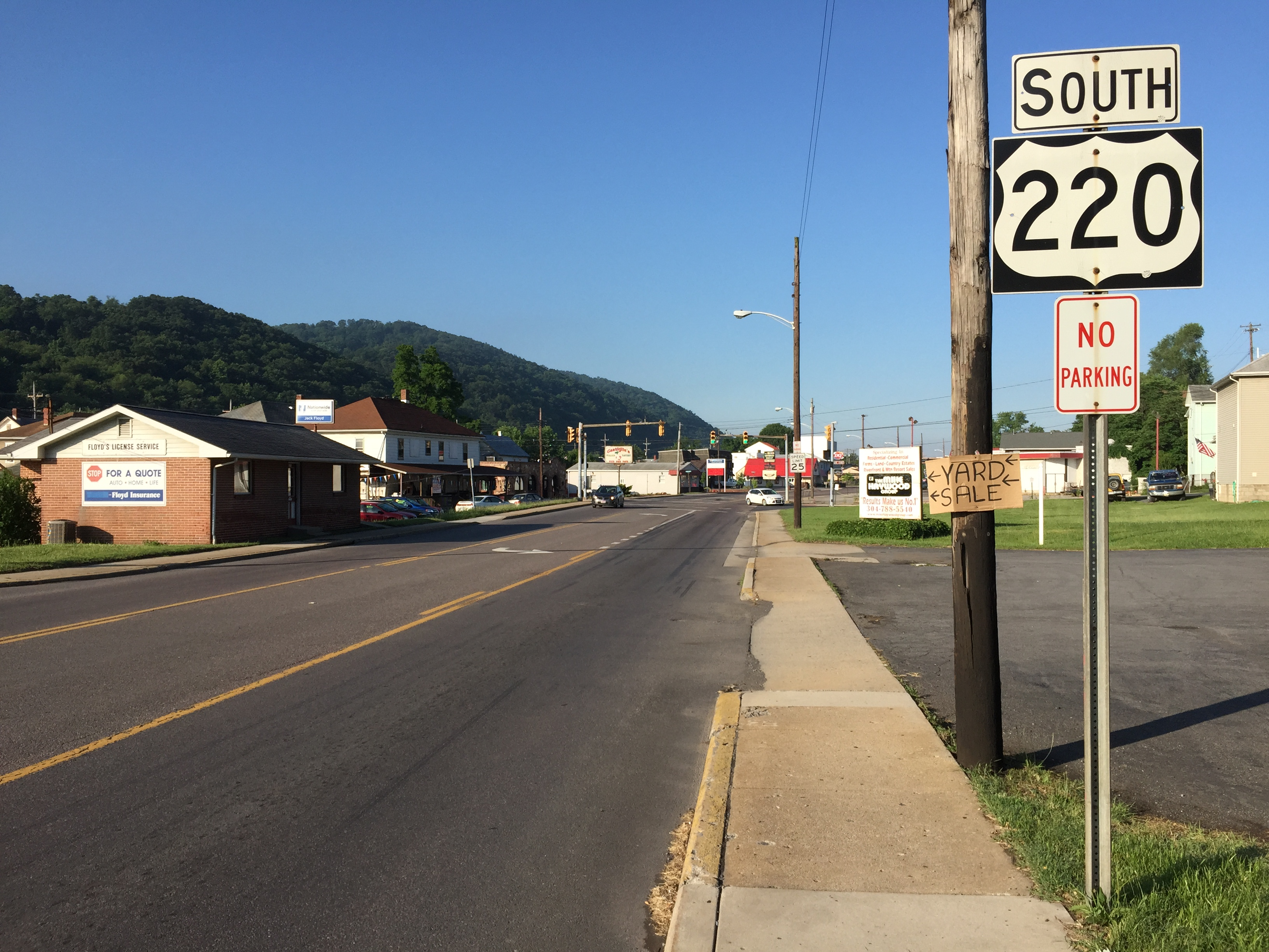 View south along U.S. Route 220 (Mineral Street) at Maryland Street in Keyser, Mineral County, West Virginia